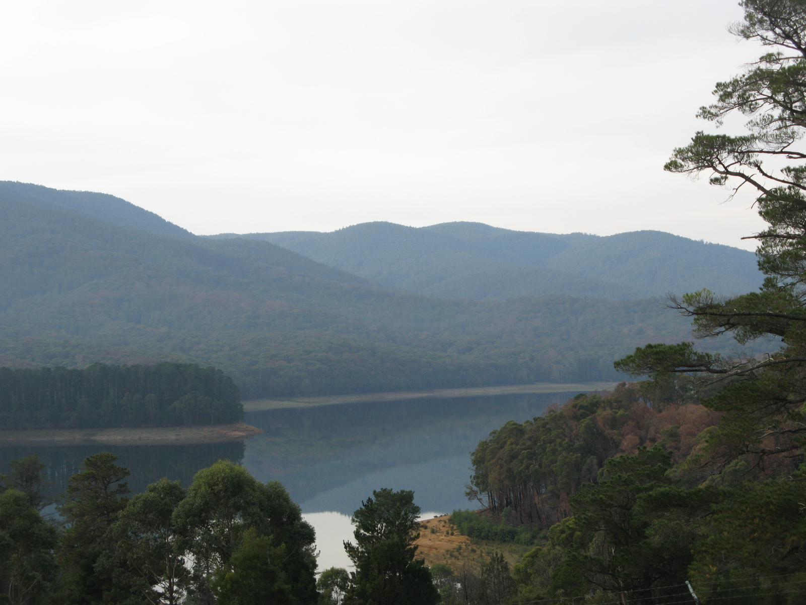 The Maroondah Reservoir viewed from the Melba Highway. Photo taken by myself in May 2009.